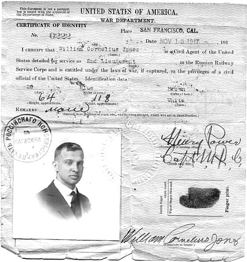 US War Department certificate of identity with a seal of the Russian Consulate in Nagasaki.